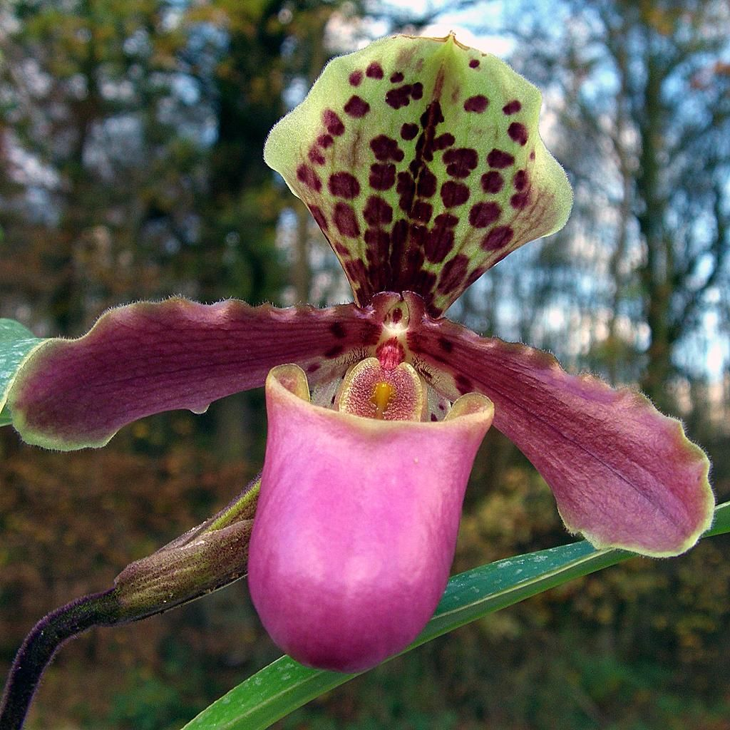 Paphiopedilum henryanum